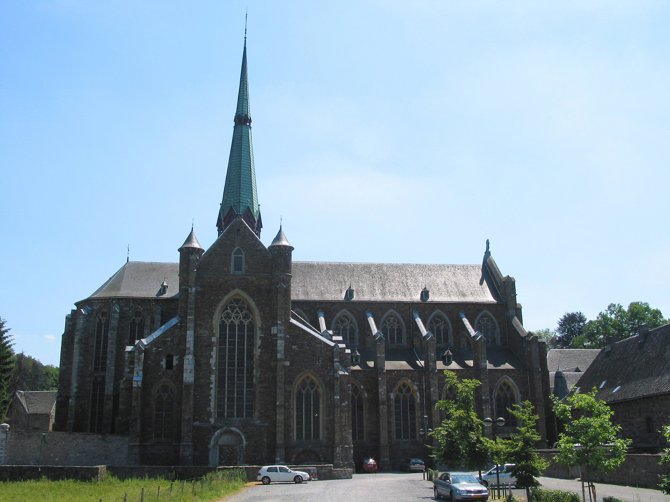 Aubel (Belgium), church of the Val-Dieu Abbey.